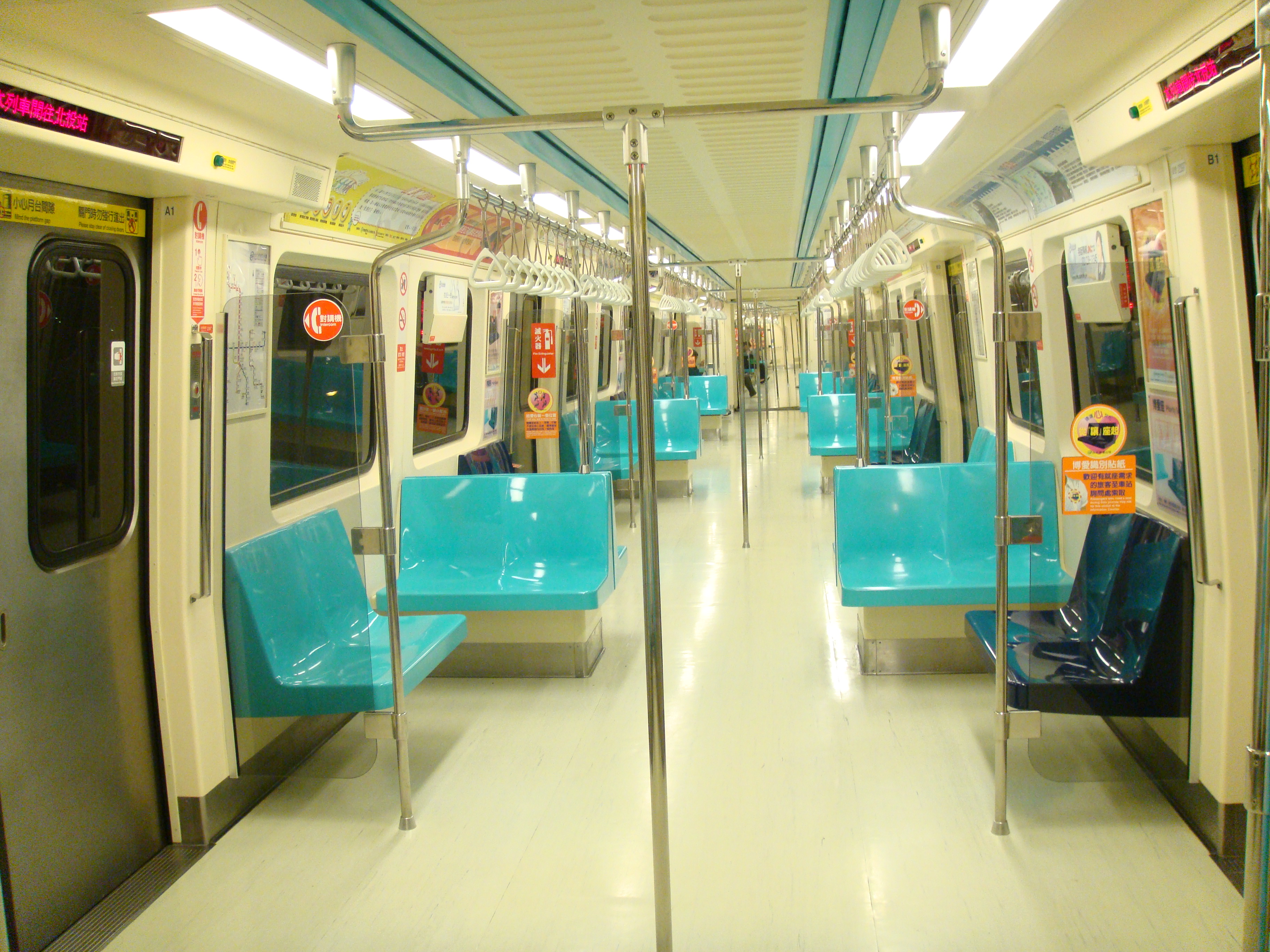 Traverse seating in the interior of C371 rolling stock, Taipei Metro, Taipei.